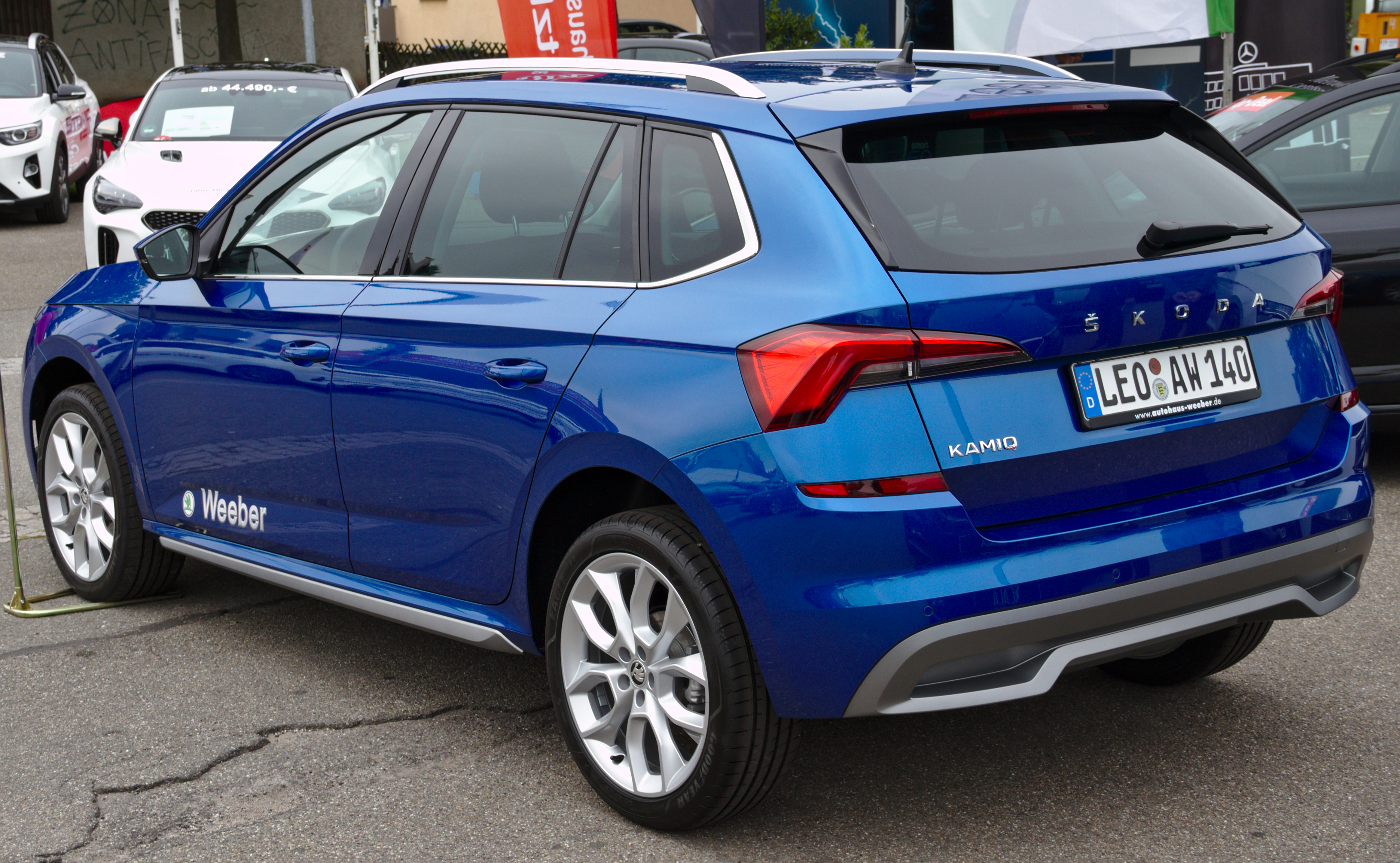 Skoda_Kamiq at Leonberger Autoschau 2019